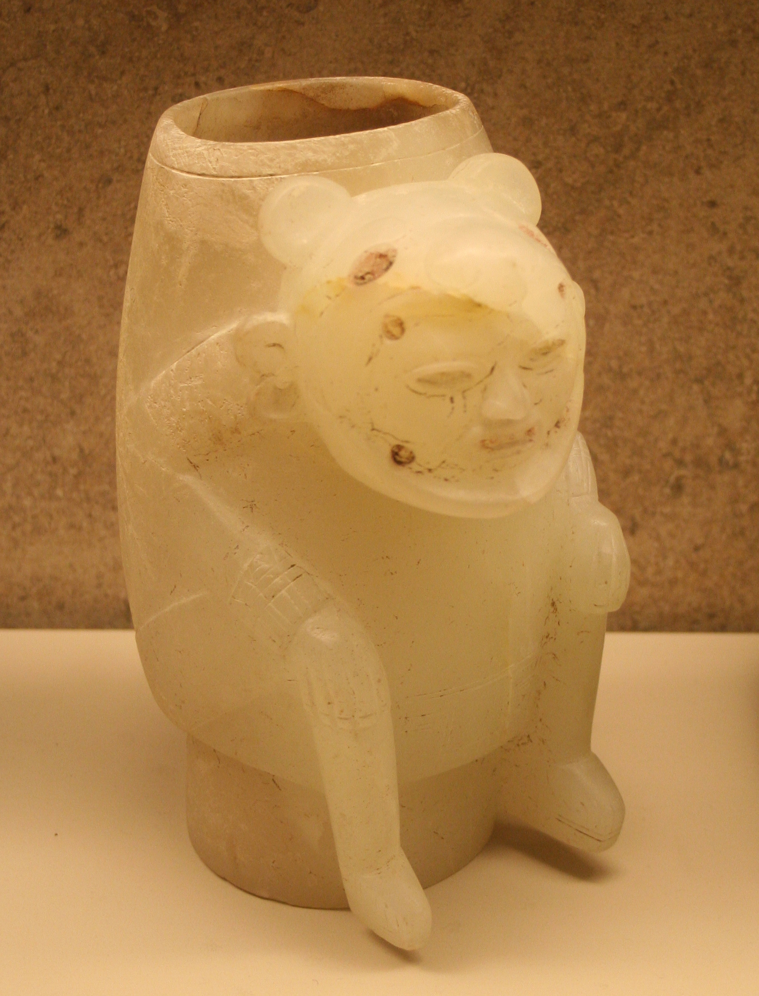 British Museum, London